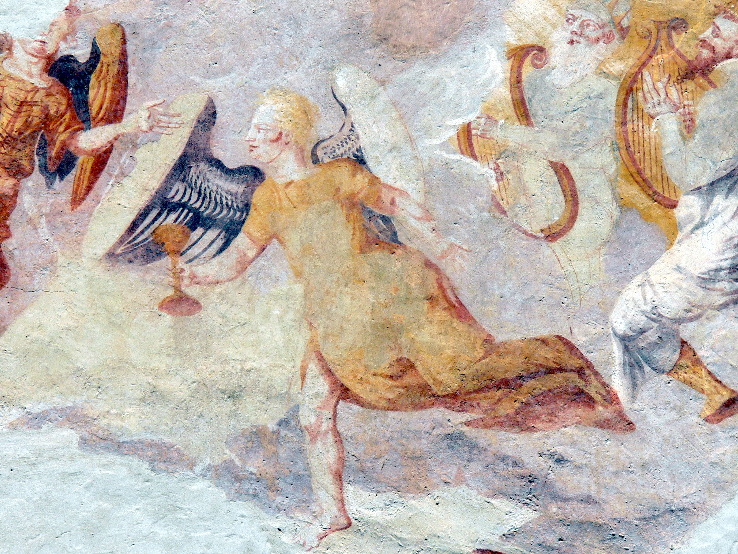 Parz castle ( Upper Austria ). Frescos ( 1580 ) at the facade - Scenes of the Apokalypse - Angel carrying the chalice of wrath of the Lord.